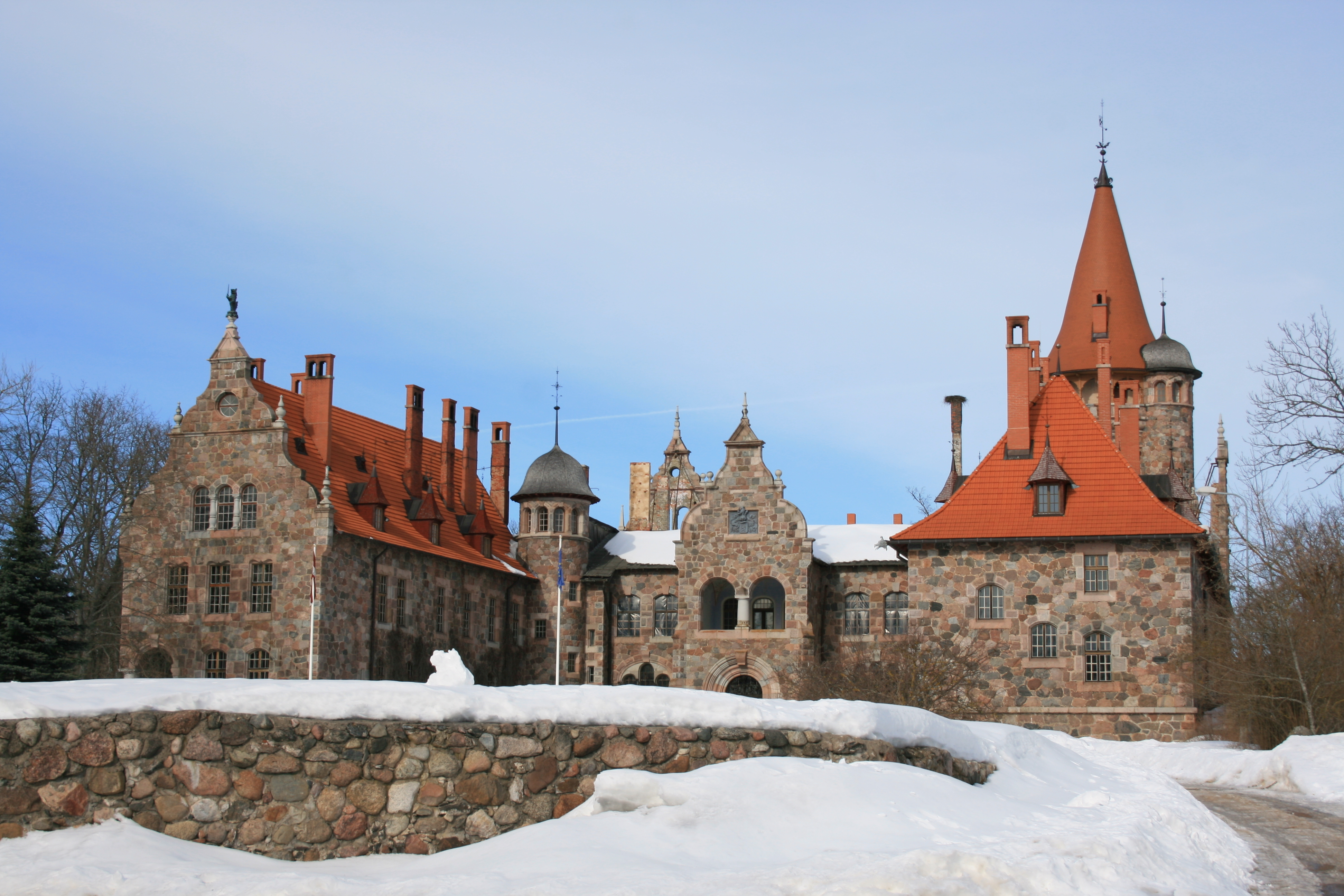 Cesvaine castle